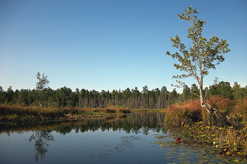 The Mullica River in the Wharton State Forest, part of the Pinelands National Reserve, New Jersey.